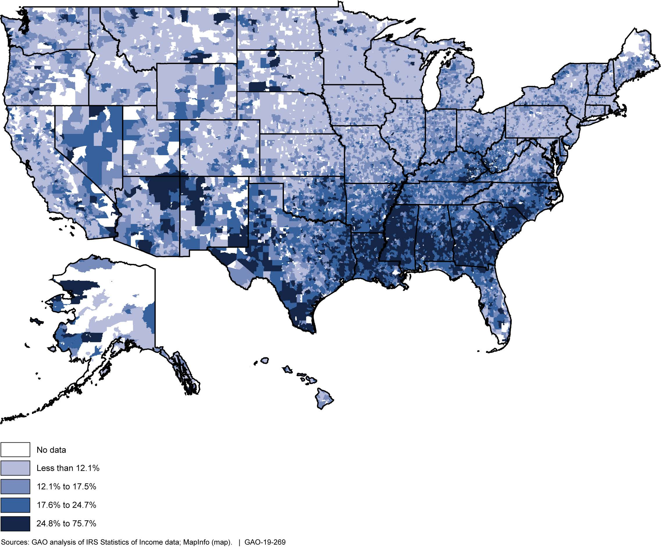 This image is excerpted from a U.S. GAO report: TAX REFUND PRODUCTS: Product Mix Has Evolved and IRS Should Improve Data Quality Notes: Zip code data are based on population data filed and processed by the Internal Revenue Service during the 2016 tax year. Zip codes with less than 100 tax returns are excluded.